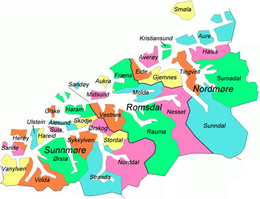 Møre og Ronsdal fylke (county) with municipalities and districts